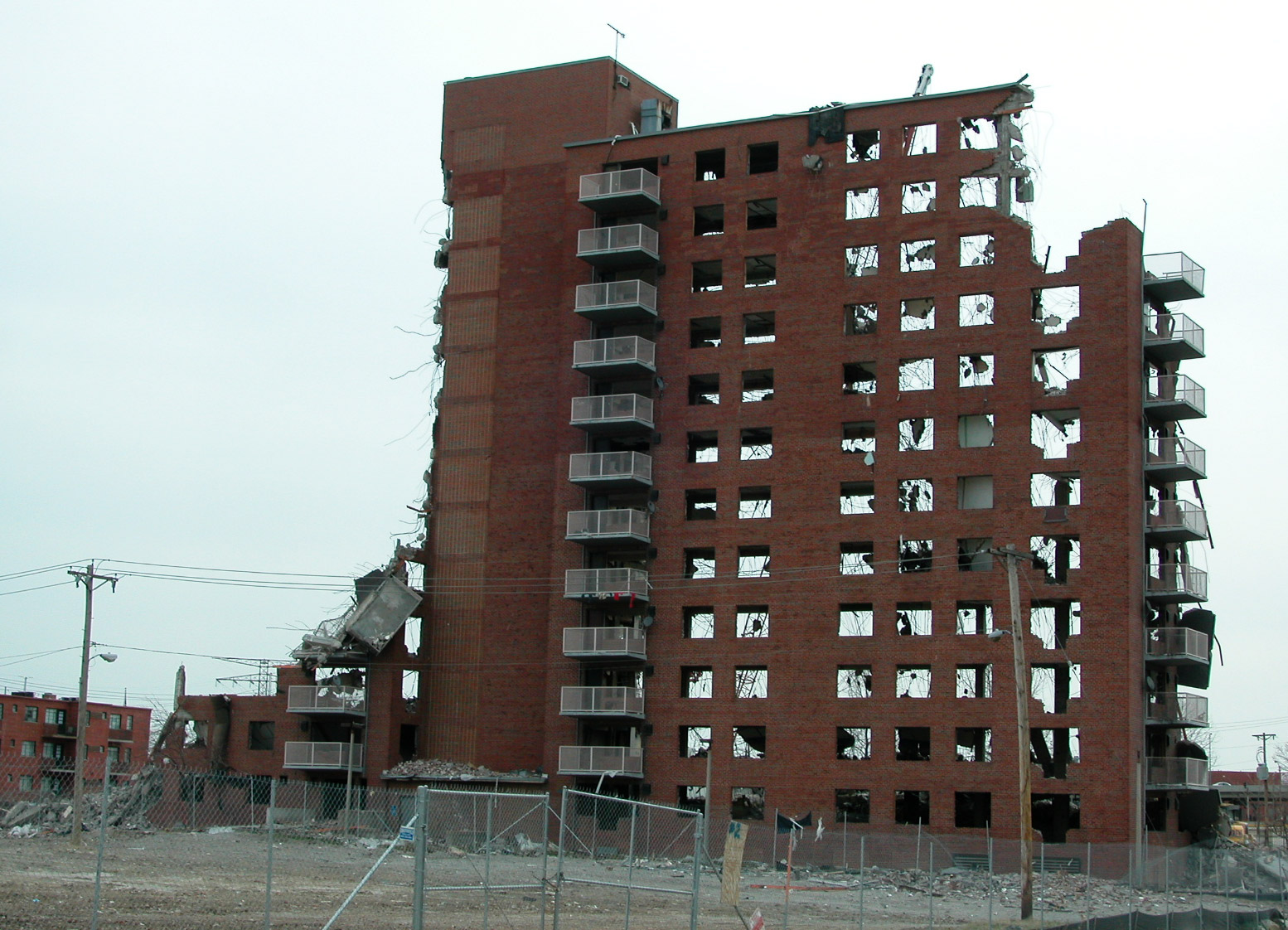 A partially demolished public housing tower in the James J. Cochran Gardens public housing complex in St. Louis, Missouri.